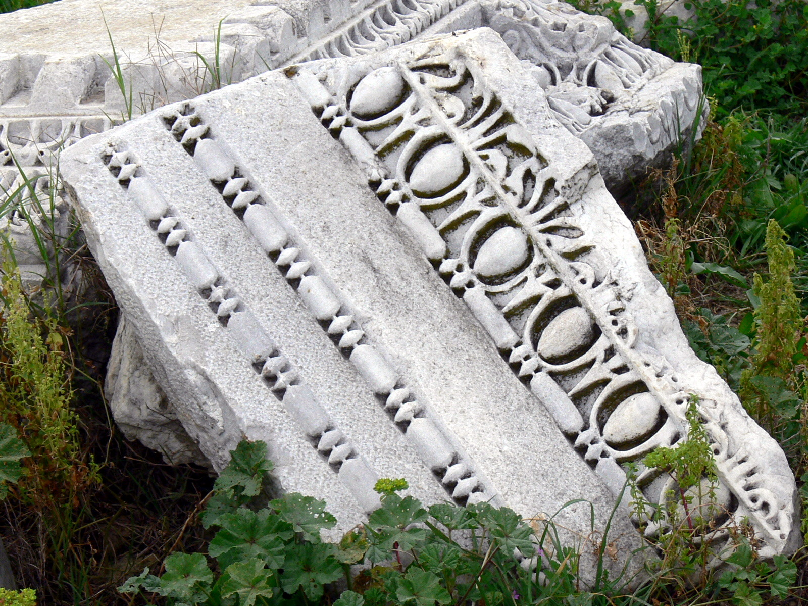 Perge ( Antalya/Turkey). Stadium: Architectural fragment with egg-and-dart-molding.